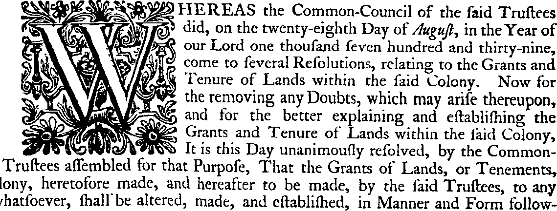 Fleuron from book: The resolutions of the Trustees for establishing the colony of Georgia in America, in Common-Council assembled, this eighth day of March, in the year of our Lord one thousand seven hundred and forty-one, relating to the grants and tenure of lands within the said colony.